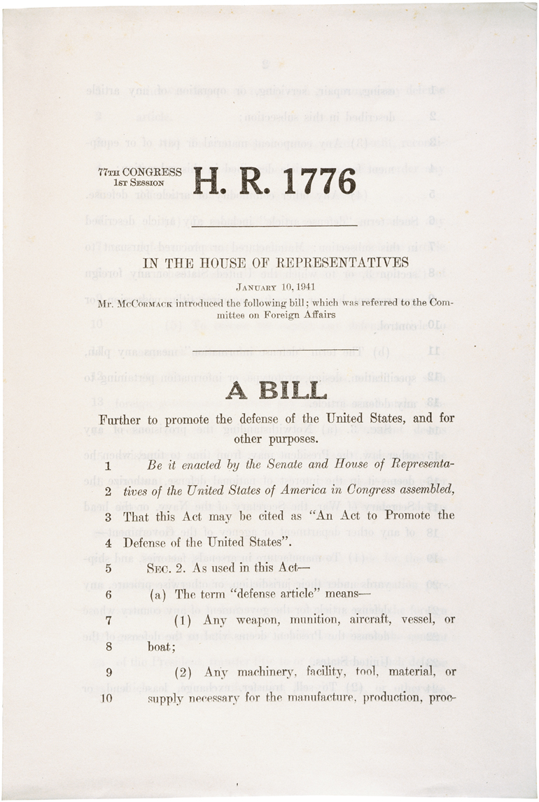 First page of Lend-Lease Act (HR 1776)